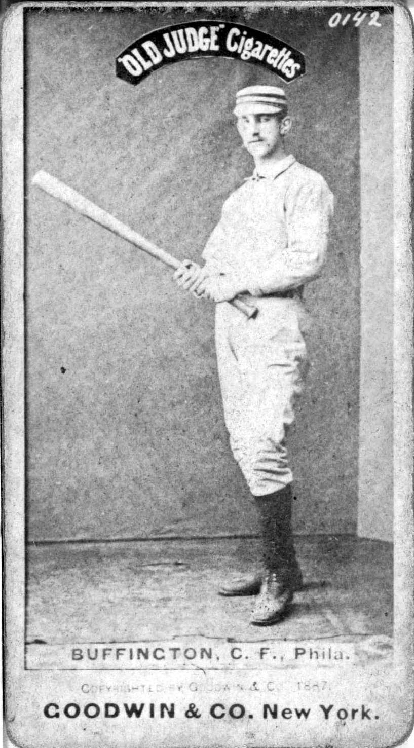 Charles G. Buffinton, born Buffington ( June 14 1861 - September 23 1907), was an American right-handed pitcher in Major League Baseball from 1882 to 1892. One of the workhorse pitchers of the 1880s, he won 20 games seven times and his 1700 career strikeouts are the ninth-highest total of the 19th century.